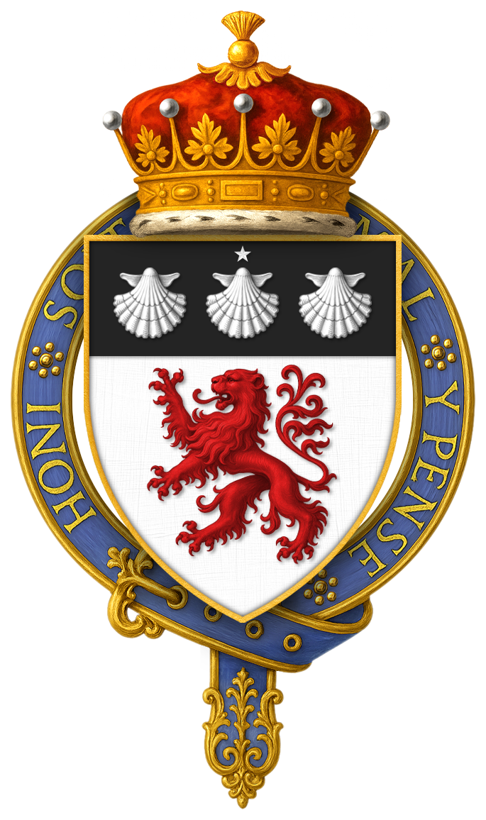 Shield of arms of John Russell, 1st Earl Russell, as displayed on his Order of the Garter stall plate in St. George's Chapel.